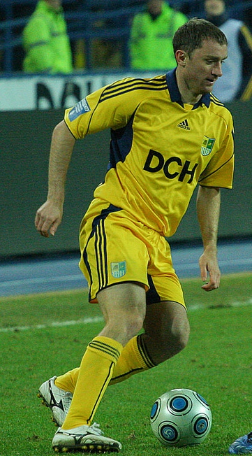 Andriy Vorobey